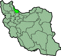 Province of Gilan, Iran